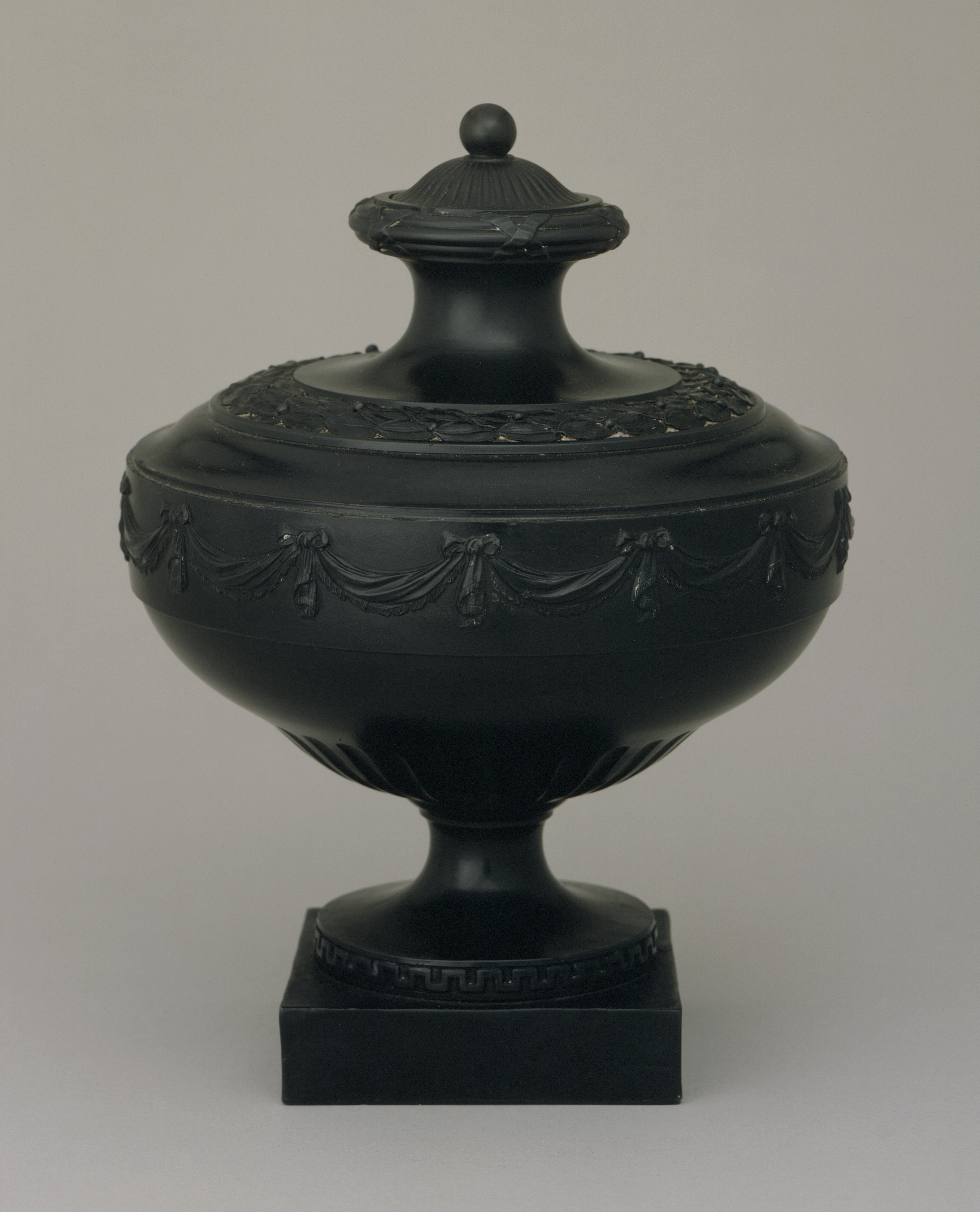 Stoneware vase with encaustic decoration (Black basalt) in classical patterns by Wedgwood & Bentley, c. 1770-1780.